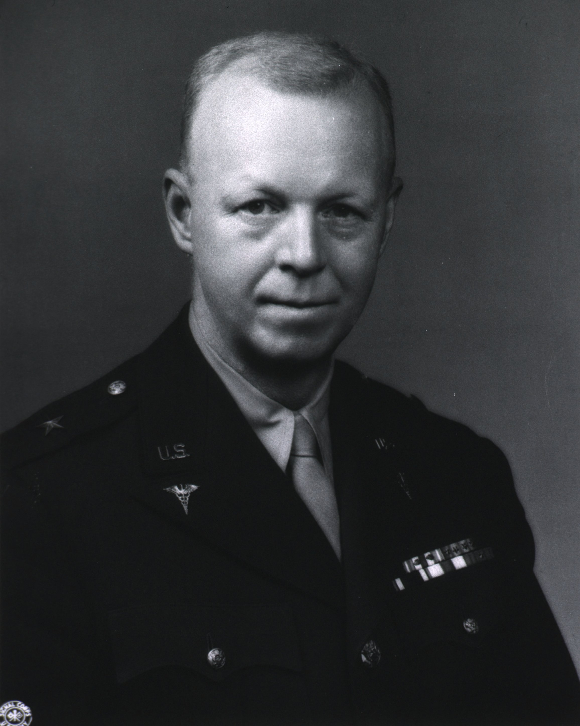 Photoportrait, Stanhope Bayne-Jones. Head and shoulders, full face, wearing uniform of Brig. General.